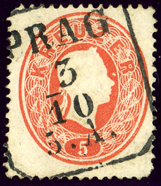 Austrian KK stamp issue 1861, 5 kreuzer, cancelled PRAG, Mueller RhK-fh, 5 h Abends